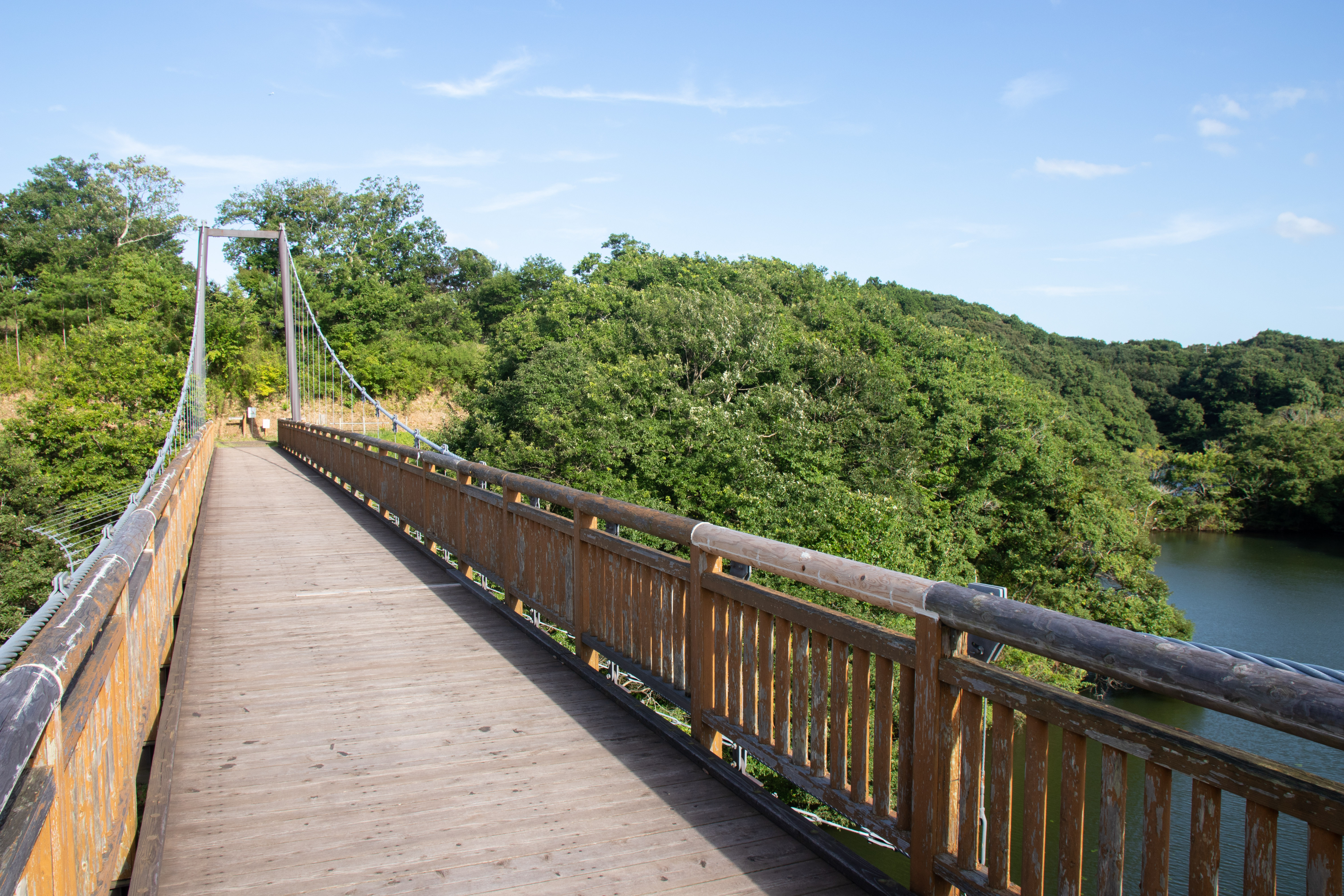 Suigo Kenminnomori, Itako City, Ibaraki , Japan